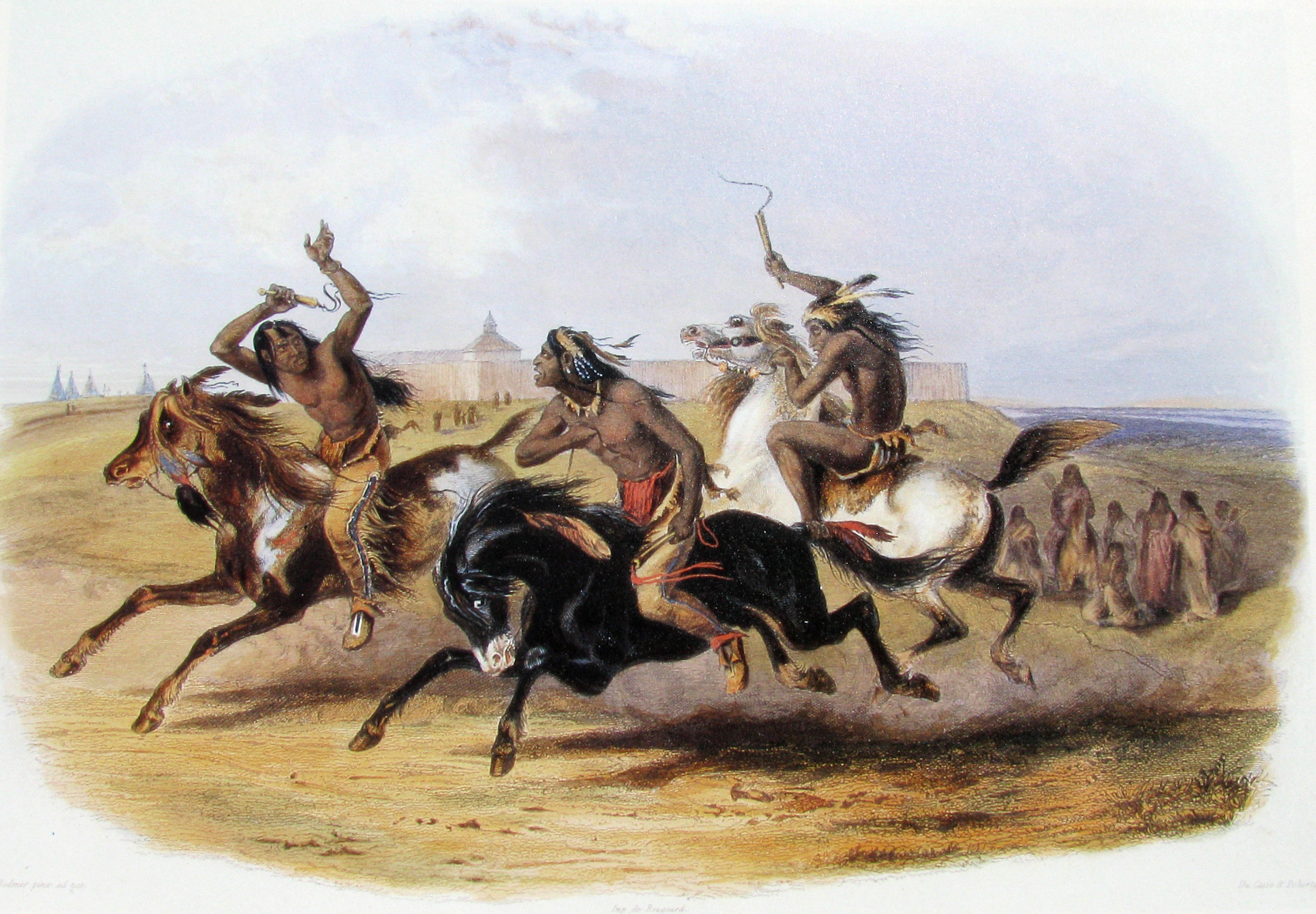 Print after a watercolor painting of Sioux Indians horse racing near Fort Pierre.